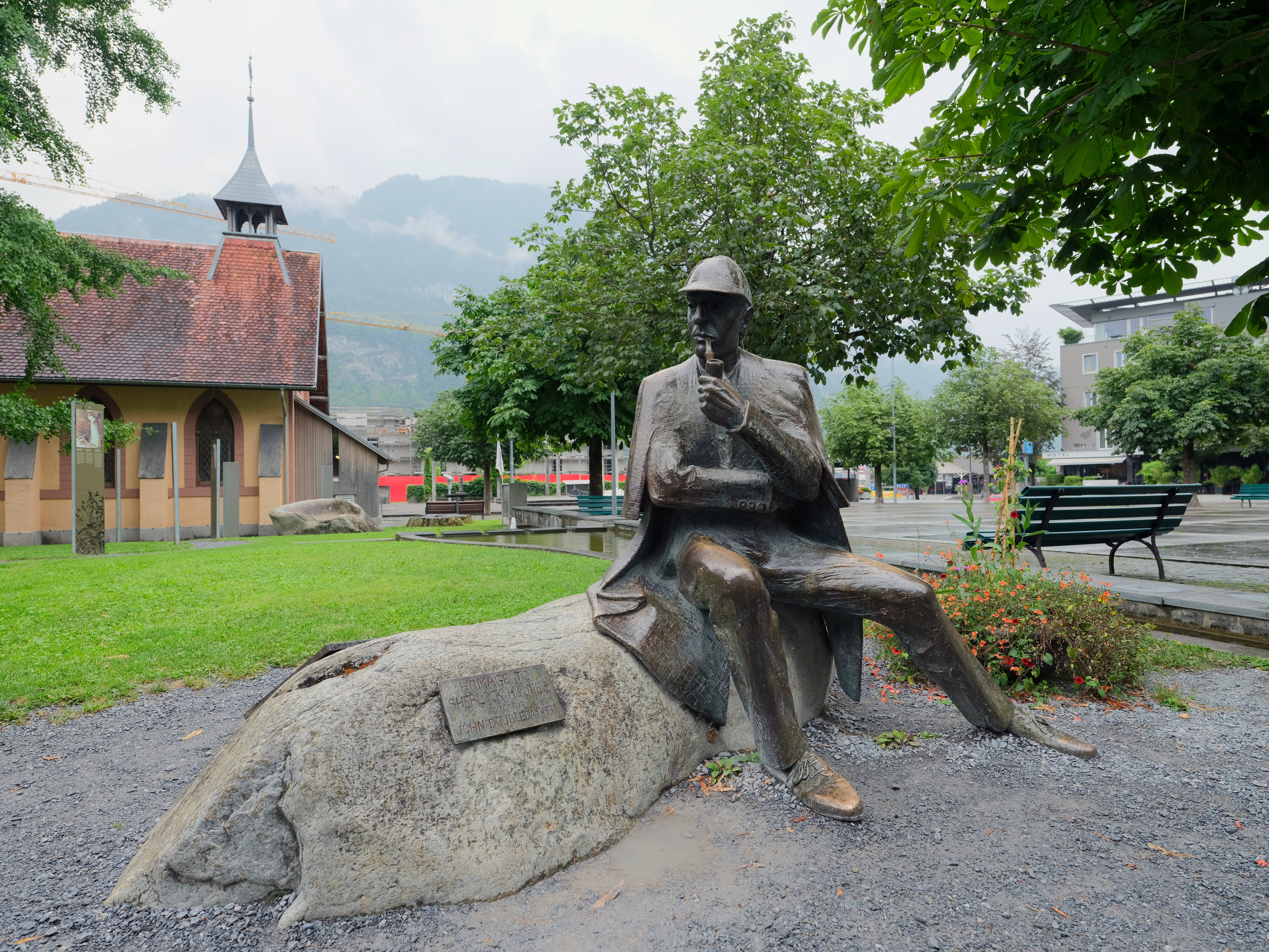 Sherlock Holmes monument in Meiringen